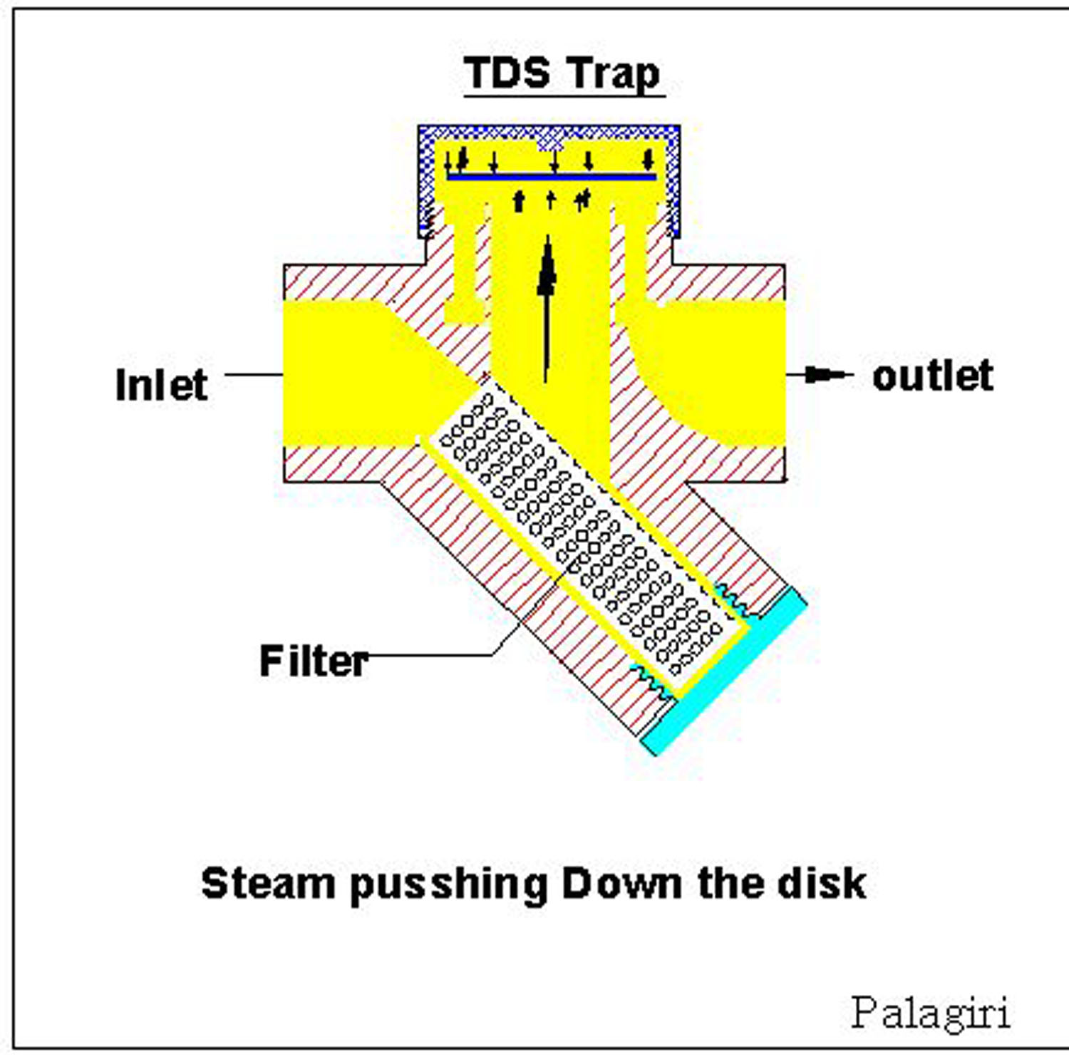 Themo dynamic steam trap